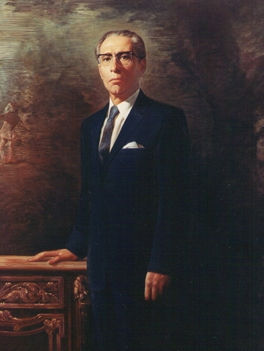 Portrait of Mexican President, Gustavo Diaz Ordaz. Image cropped, shadow decreased and highlighting increased using Photo Editor at